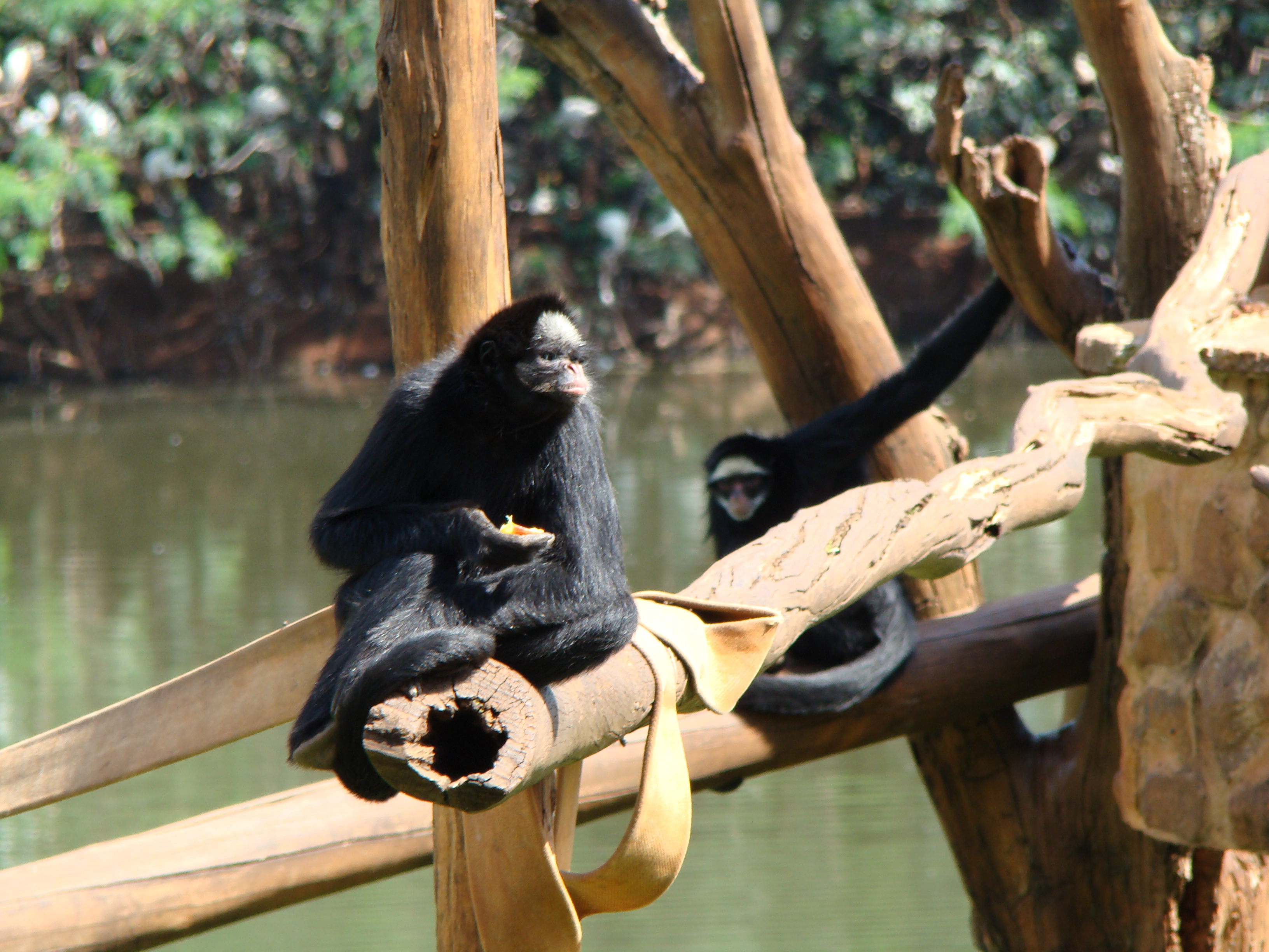 Ateles marginatus